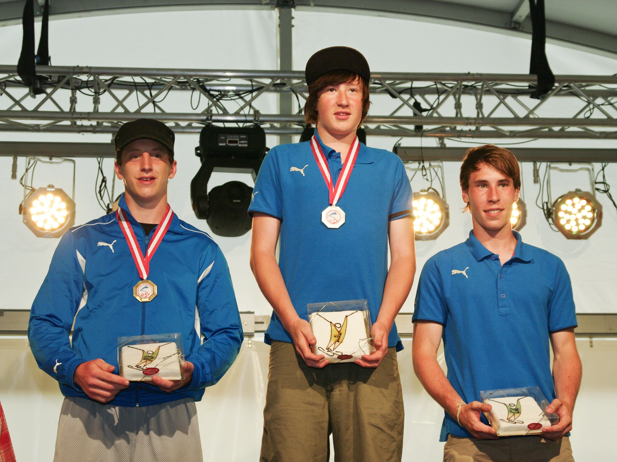 Austrian Grasski Championships 2010 in Rettenbach: Medal ceremony Juniors Slalom: 1st place and Austrian Junior Champion: Hannes Angerer (middle), 2nd place: Daniel Gschwandtner (left), 3rd place: Andreas Guttmann (right)